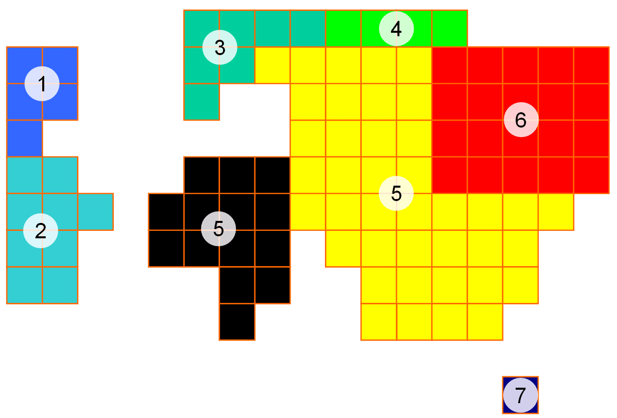 map of world population (each square equals 1 percent of the world population)